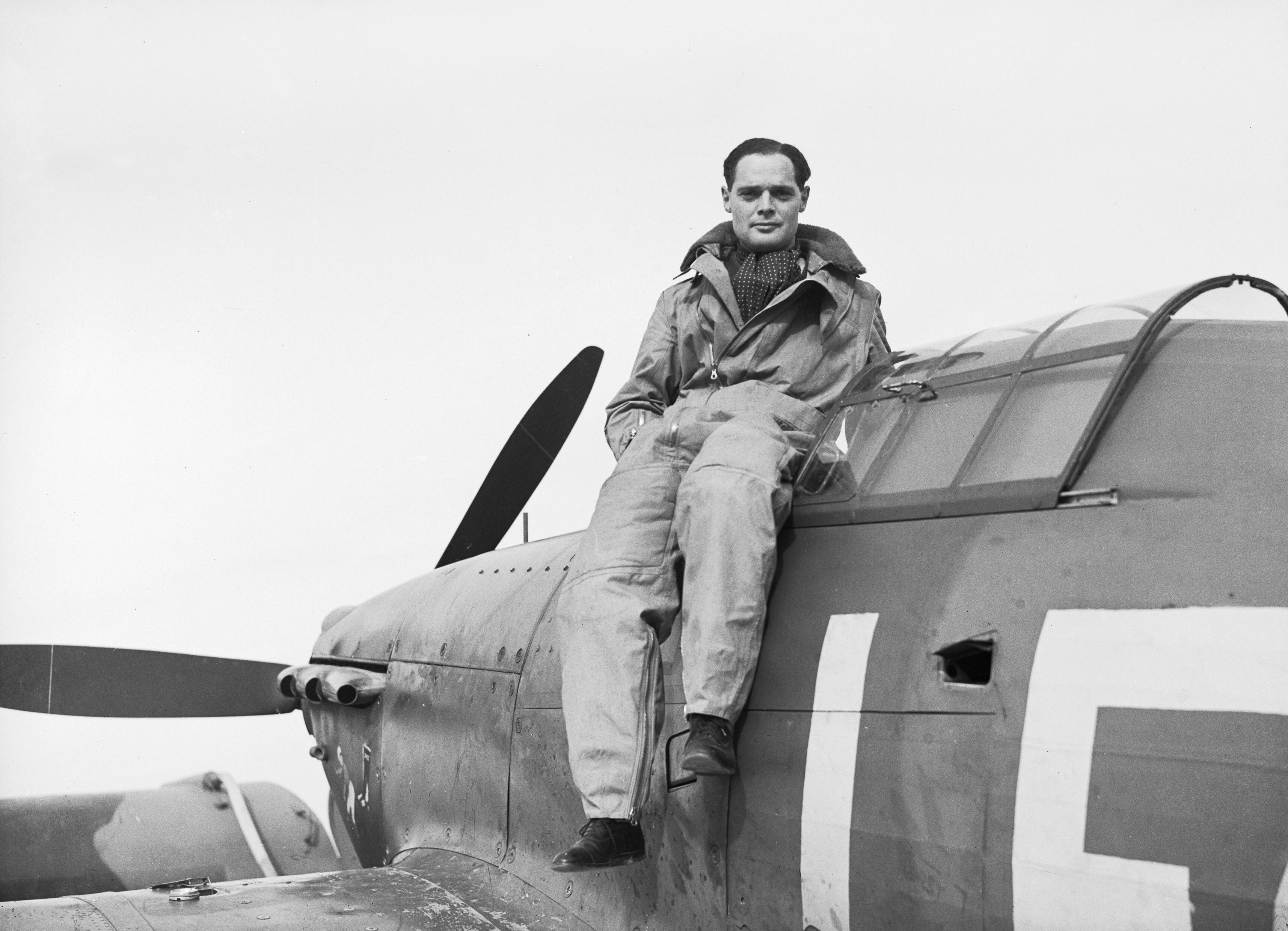 Squadron Leader Douglas Bader, CO of No. 242 Squadron, seated on his Hawker Hurricane at Duxford, September 1940. British Personalities: Squadron Leader Douglas Bader DSO DFC CO of 242 Squadron, Royal Air Force seated on the cockpit of his Hawker Hurricane.